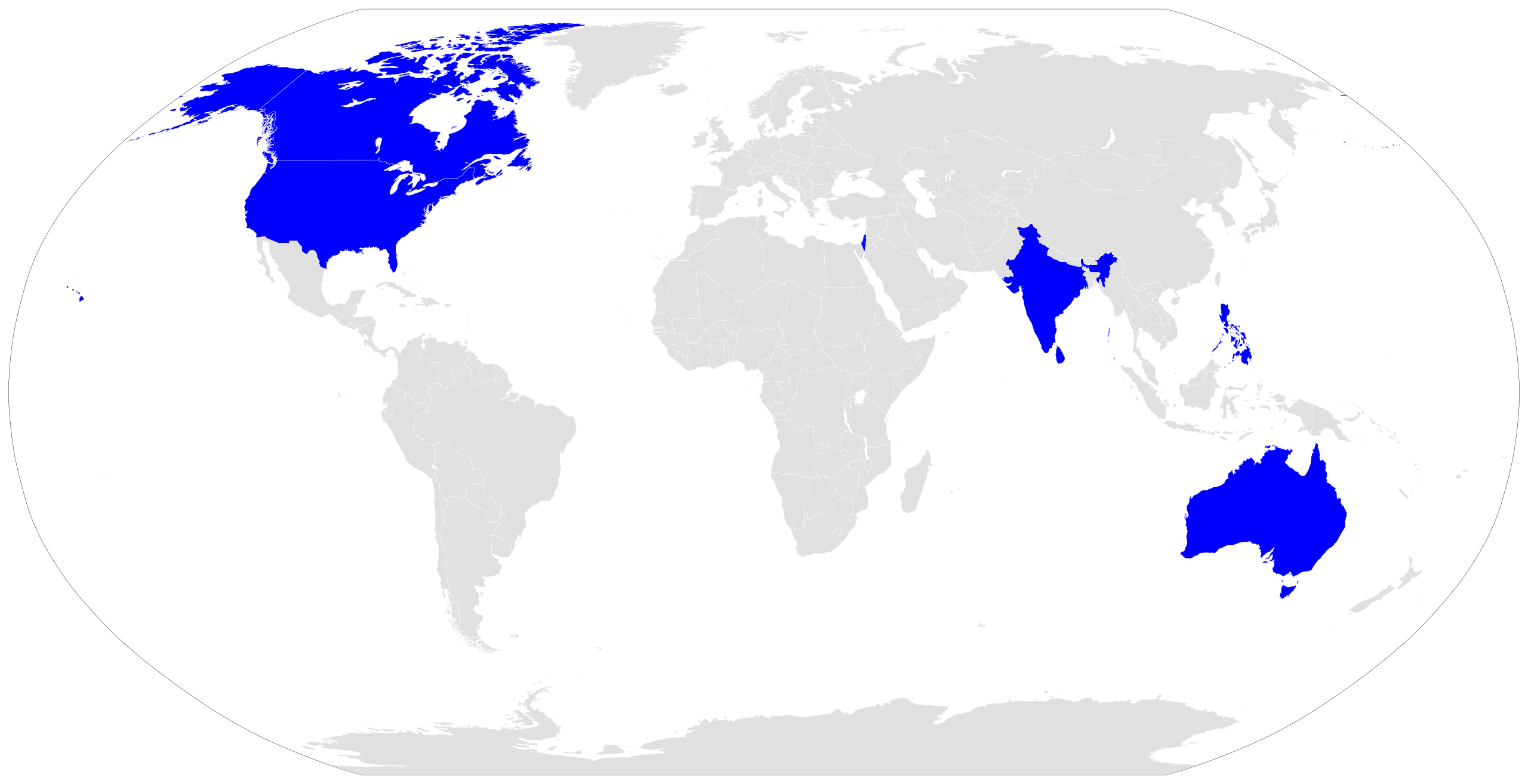 Map with Typhoon operators in blue.